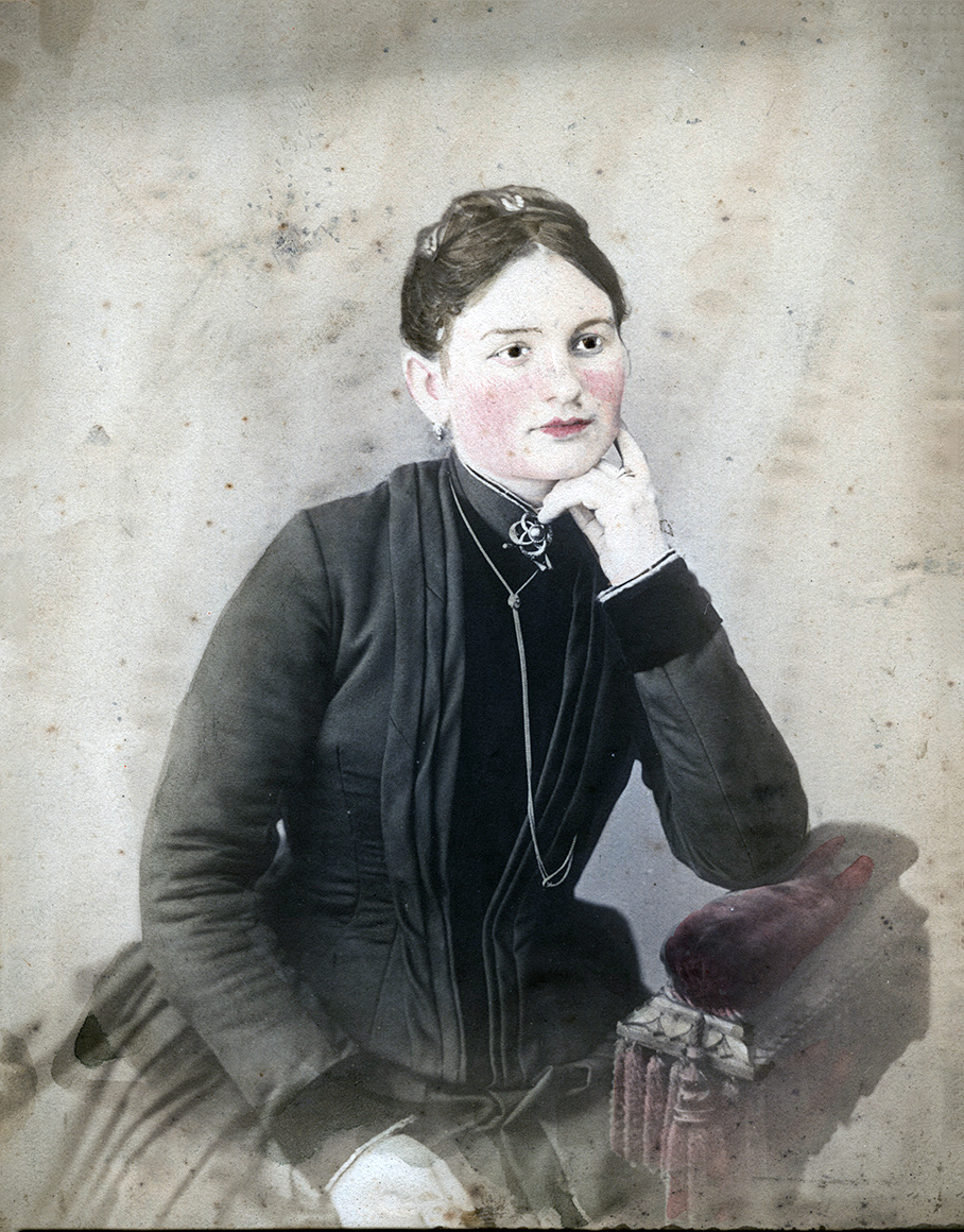 Bottom layer of chromophotography by Alexander Seik, approximately 1870.